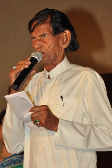 Music composer Bombay S. Kamal